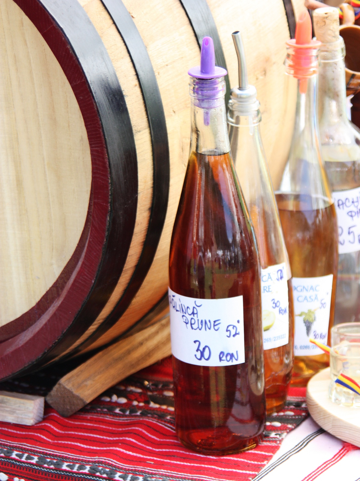 Plums palinka at a "Cheese and Țuică" festival near Sibiu, Romania